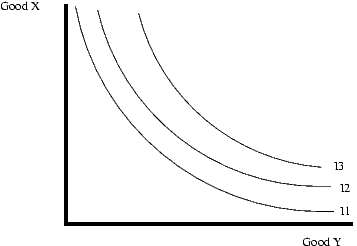 Indifference curve graphic was created by user:jrincayc to illustrate the indifference curve article. 'Note: axes are different in SVG version to be more intuitive